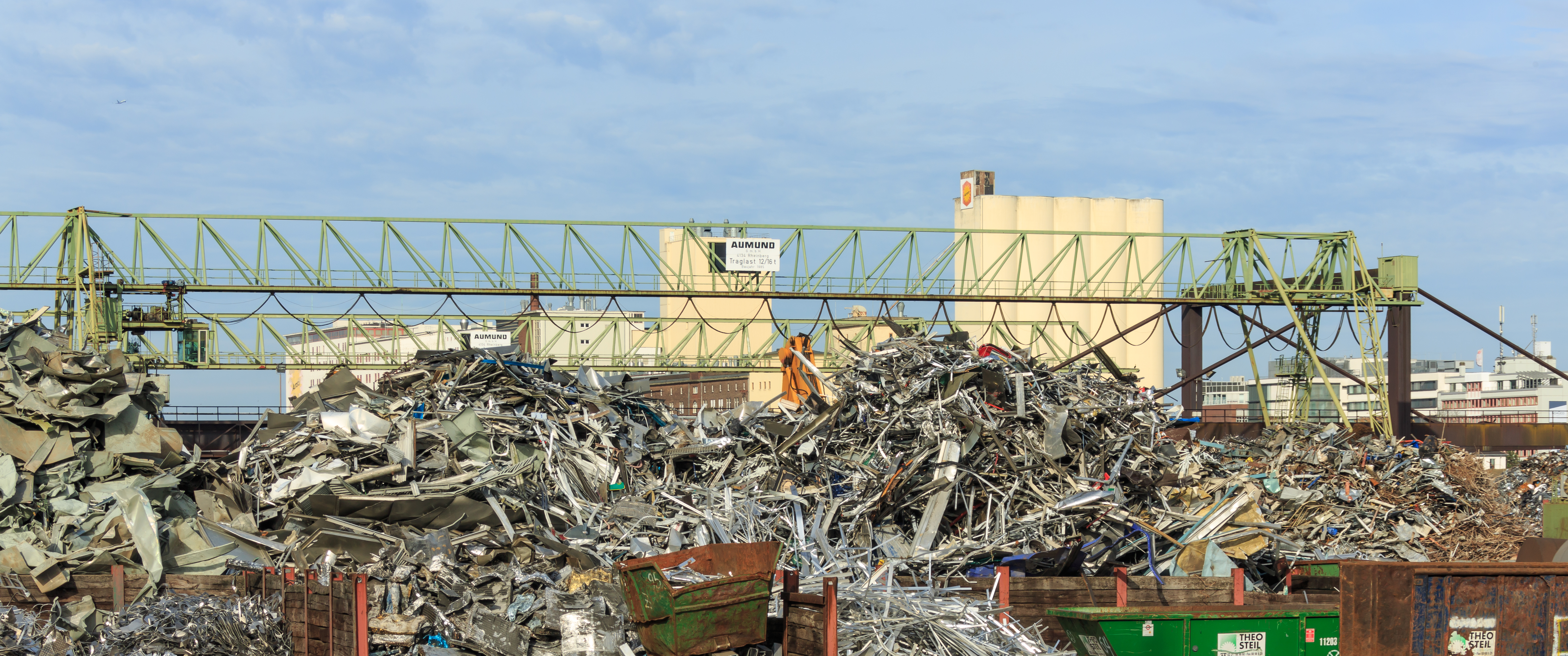 Cologne, Germany: Scrap yard of Theo Steil GmbH in Deutz Industrial Harbour (Deutzer Hafen)